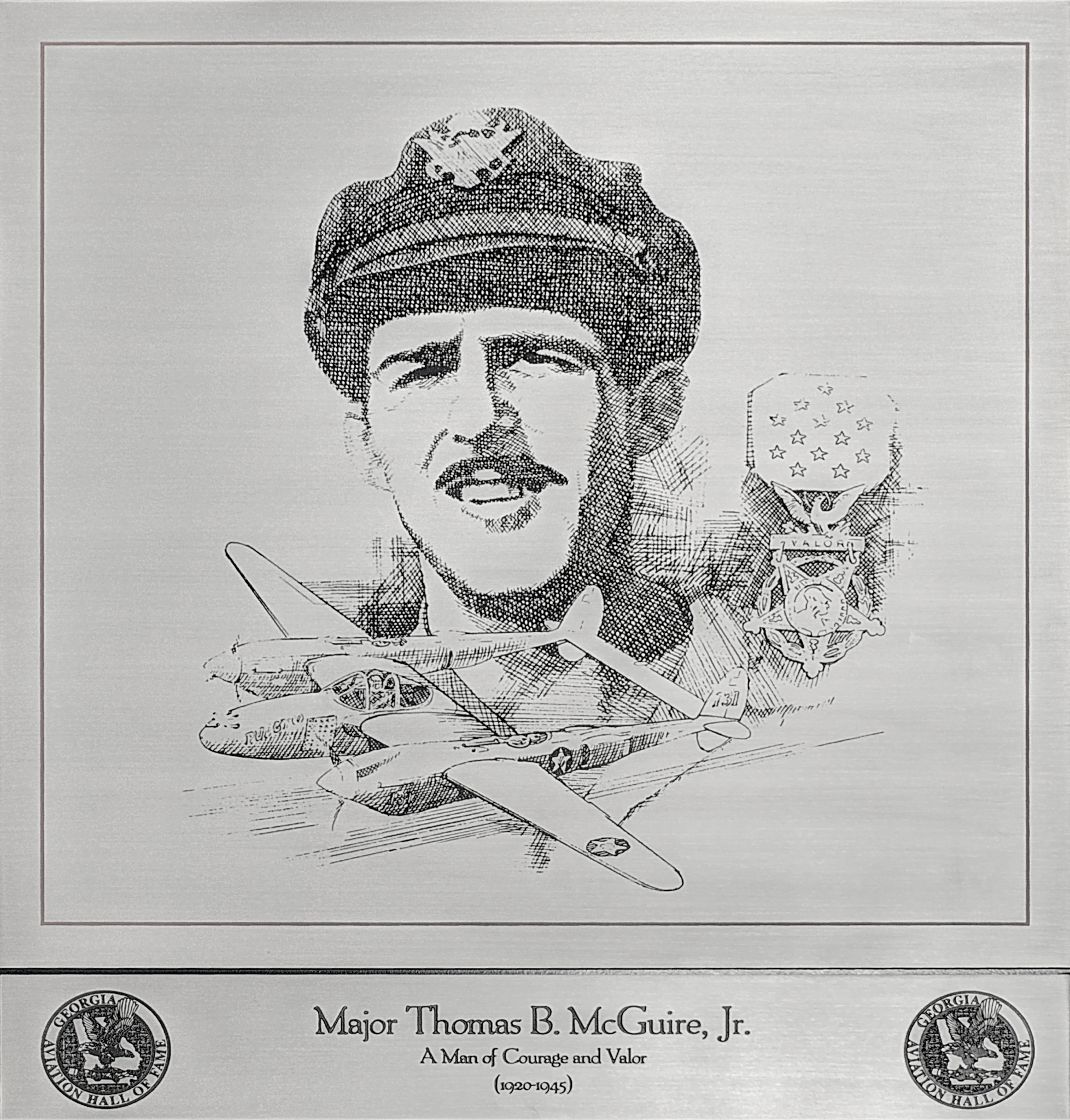 Major Thomas B. McGuire, Jr. (1920 - 1945)